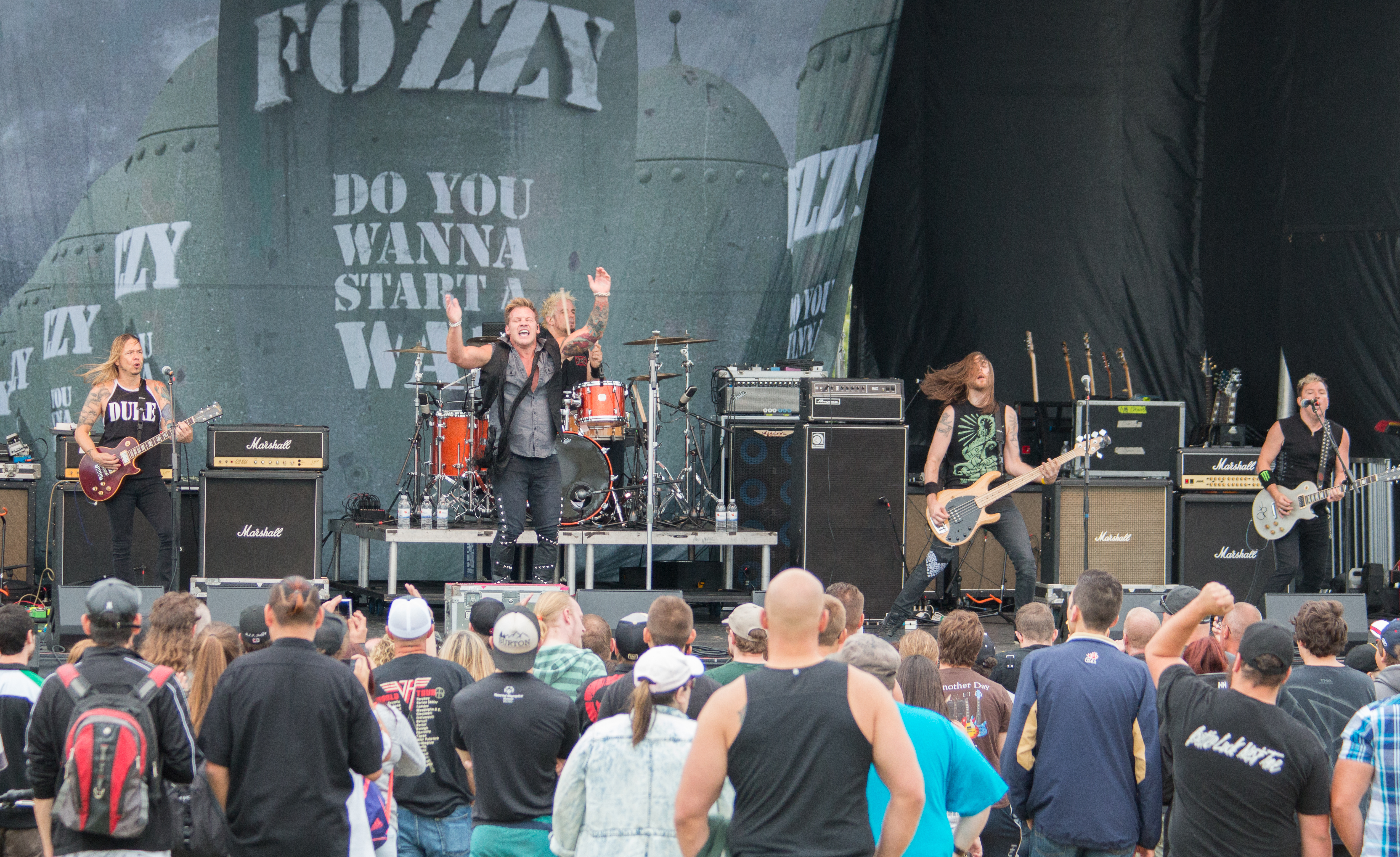 The band Fozzy performing at the 2015 Festival of Friends in Ancaster, ON